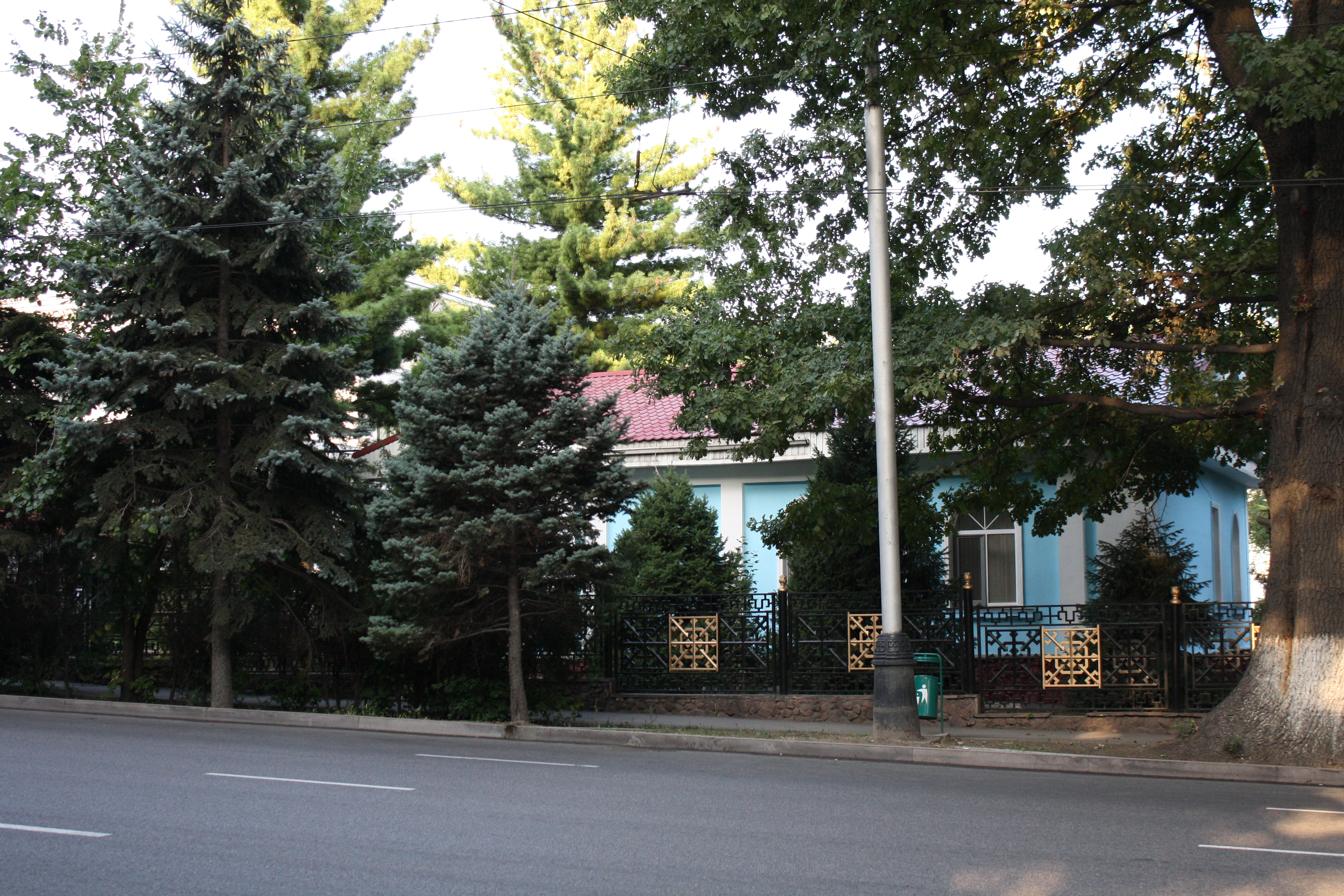 The house of Gavrilov merchant. Zheltoksan str, 167, Almaty, Kazakhstan